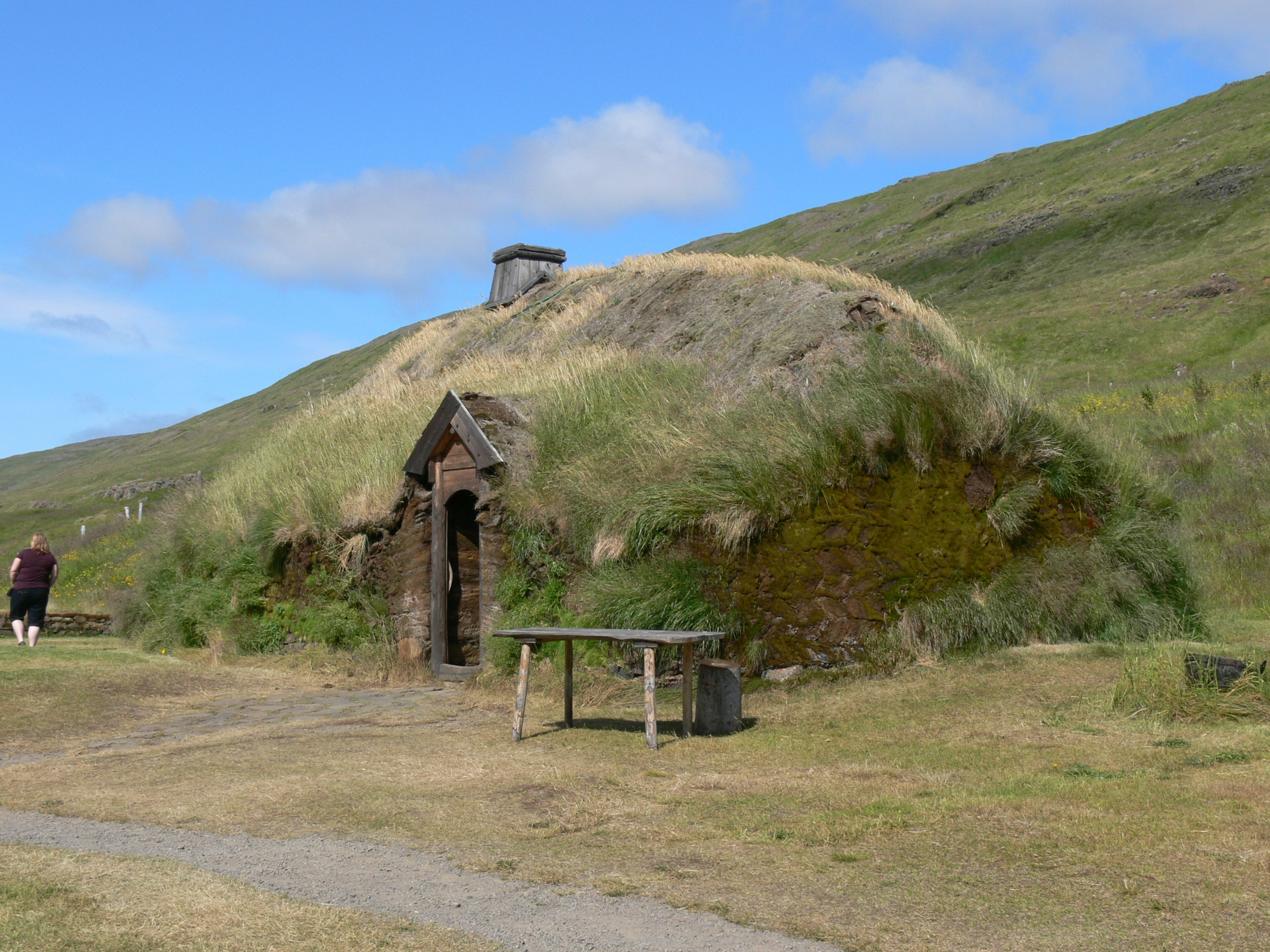 Eiríksstaðir. Reconstructed farm building from the outside.